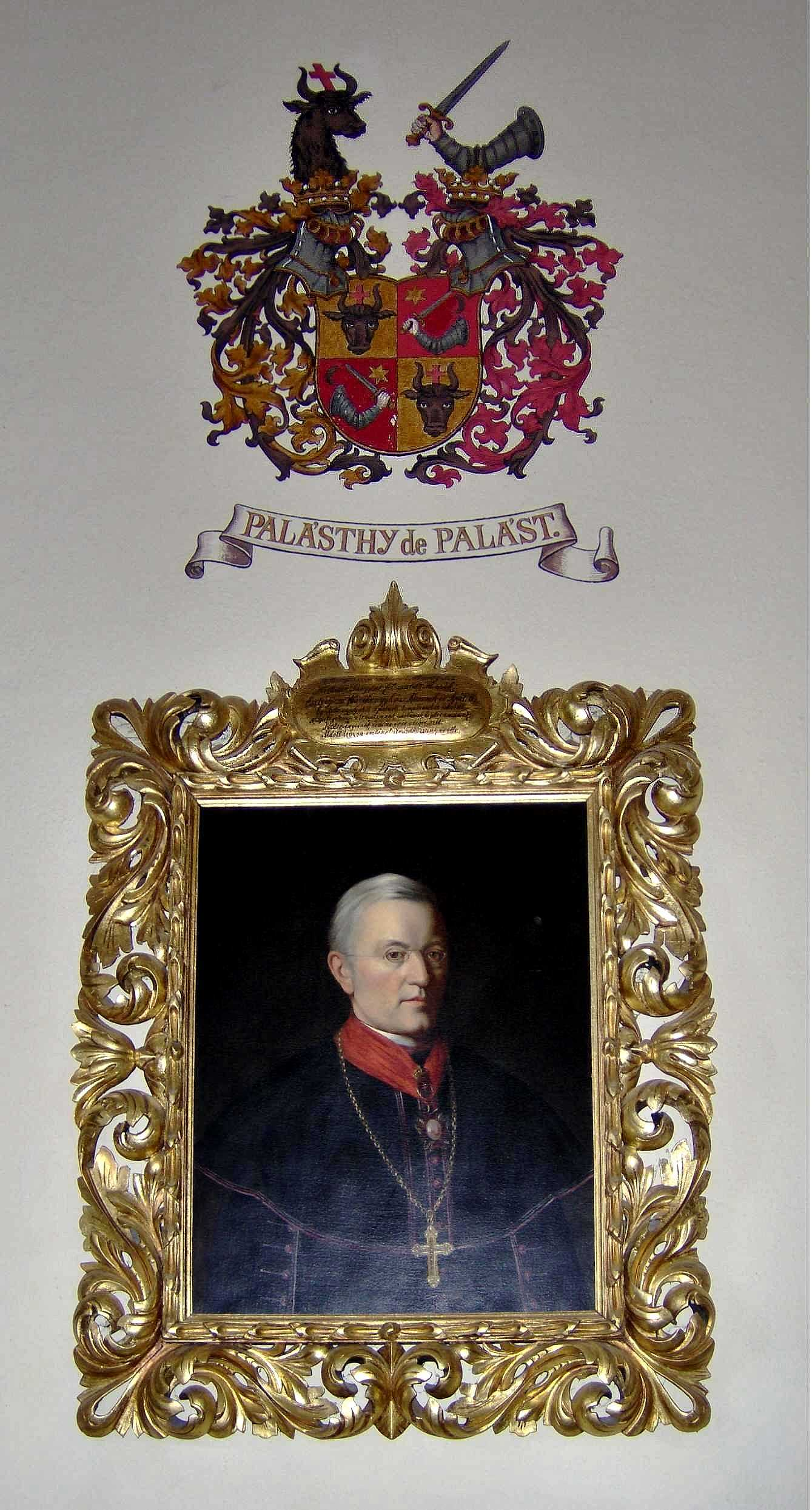 Portrait of bishop Pál Palásthy and coat of arms in church in Plášťovce